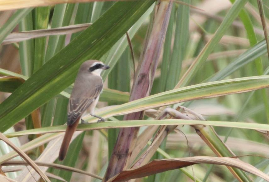 Red-tailed shrike at Vila de Sena, on the Zambezi river, central Mozambique